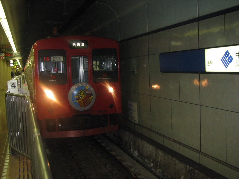 JR Kyushu 103 series EMU at Nakasu-Kawabata Station